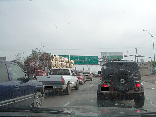 Photo taken by Reid Sullivan.